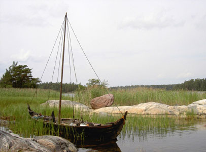 Himingläva, viking boat replika based on the biggest of the boats accompanying the Gokstad ship. It was built to follow the last parts of the journey of Ingvar the Far-Travelled over the Black Sea, by rivers in Georgia and Azerbaijan and over the Caspian Sea.